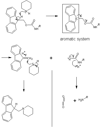 deprotection of the peptide protecting group Fmoc